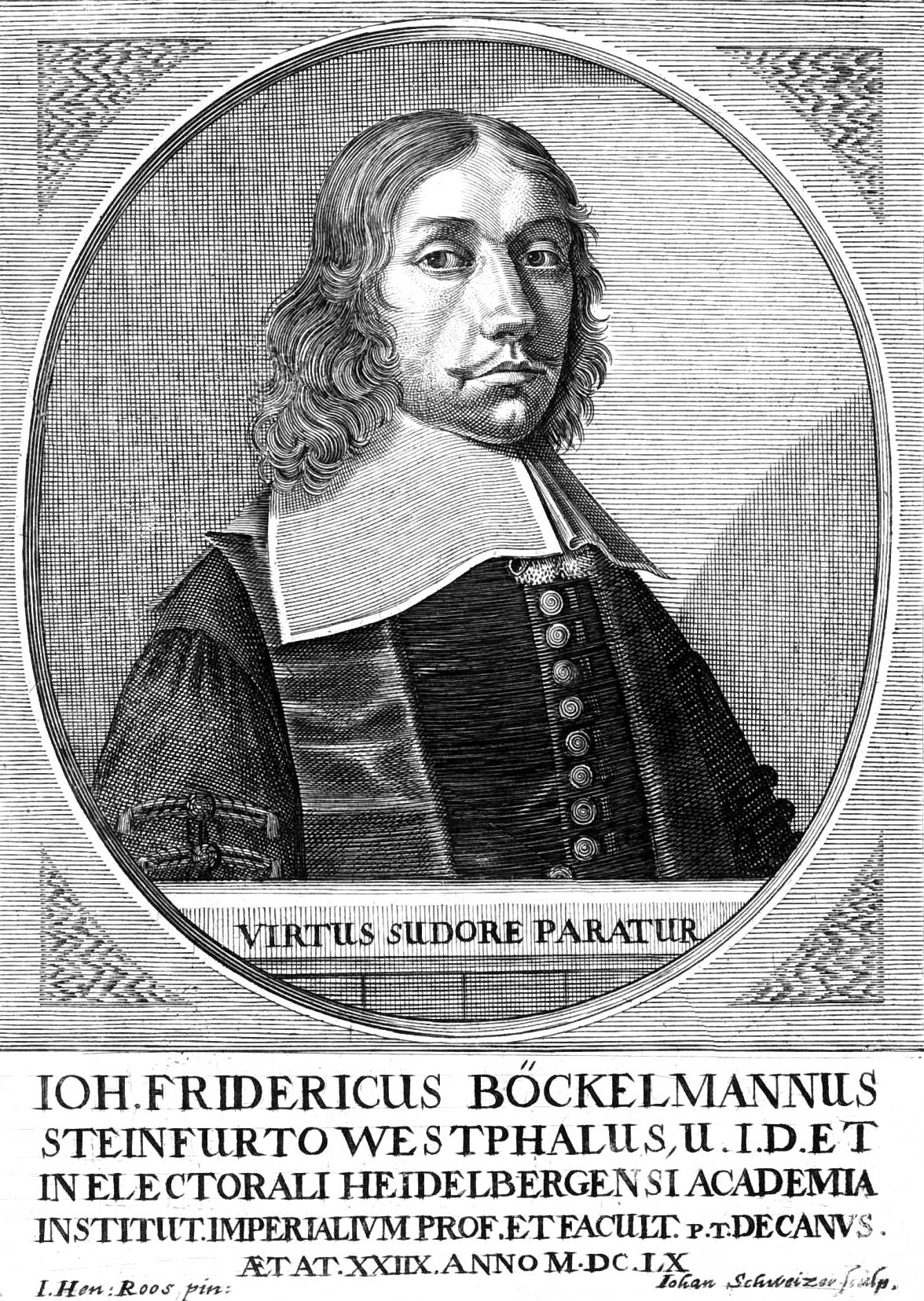 Johannes Friedrich Böckelmann (1633-1681) german lawers